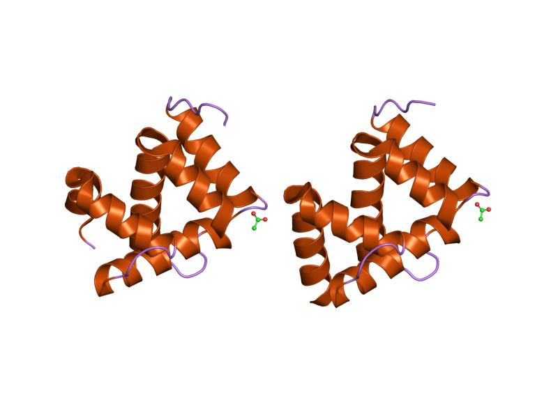 Cartoon representation of the molecular structure of protein registered with 1kx9 code.